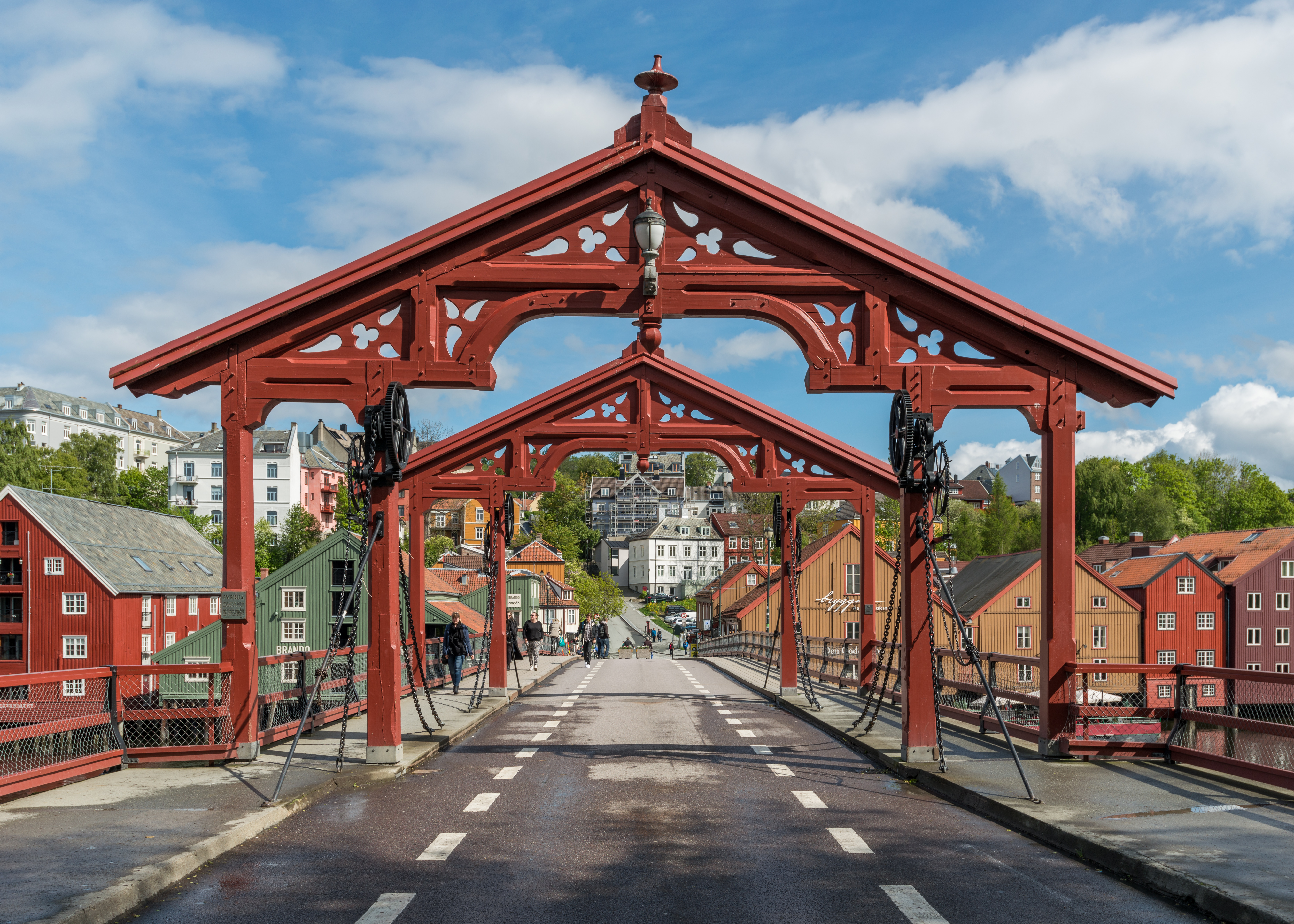 The Lykkens Portal, located on Gamble Bybro, Trondheim, West view